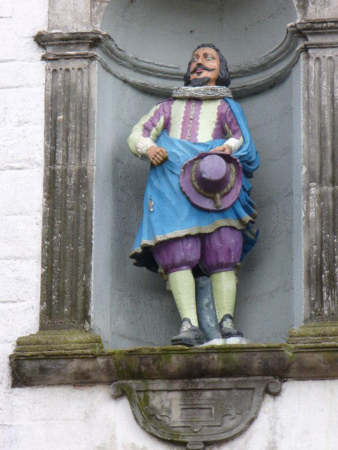 John Cowane's Statue, Guildhall, Stirling. Cowane was nicknamed "Stoneybreeks". His statue dates from 1649 and the figure is supposed to come alive, jump down, and dance every Hogmanay. Must be the spirits!